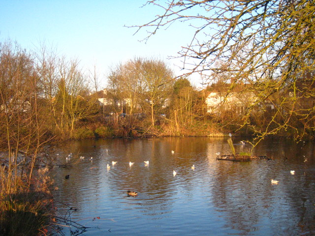 Stamford Green pond On the north east corner of Epsom Common.